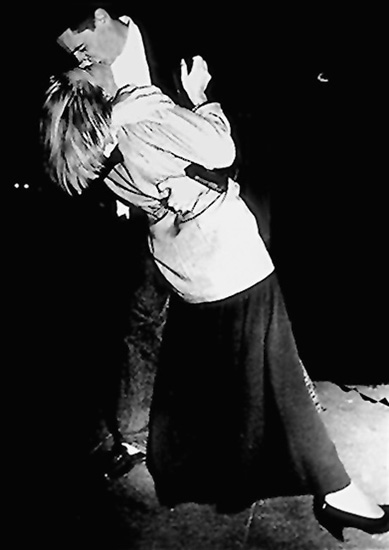 Re-enacting famous Alfred Eisenstaedt photo at 00:01 on Reunification night in Cologne, Germany. Photo by Gary Mark Smith.